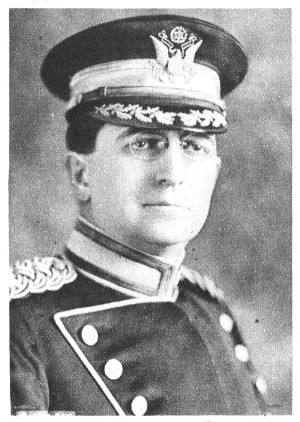 Photo of Brig. General Harry L Rogers